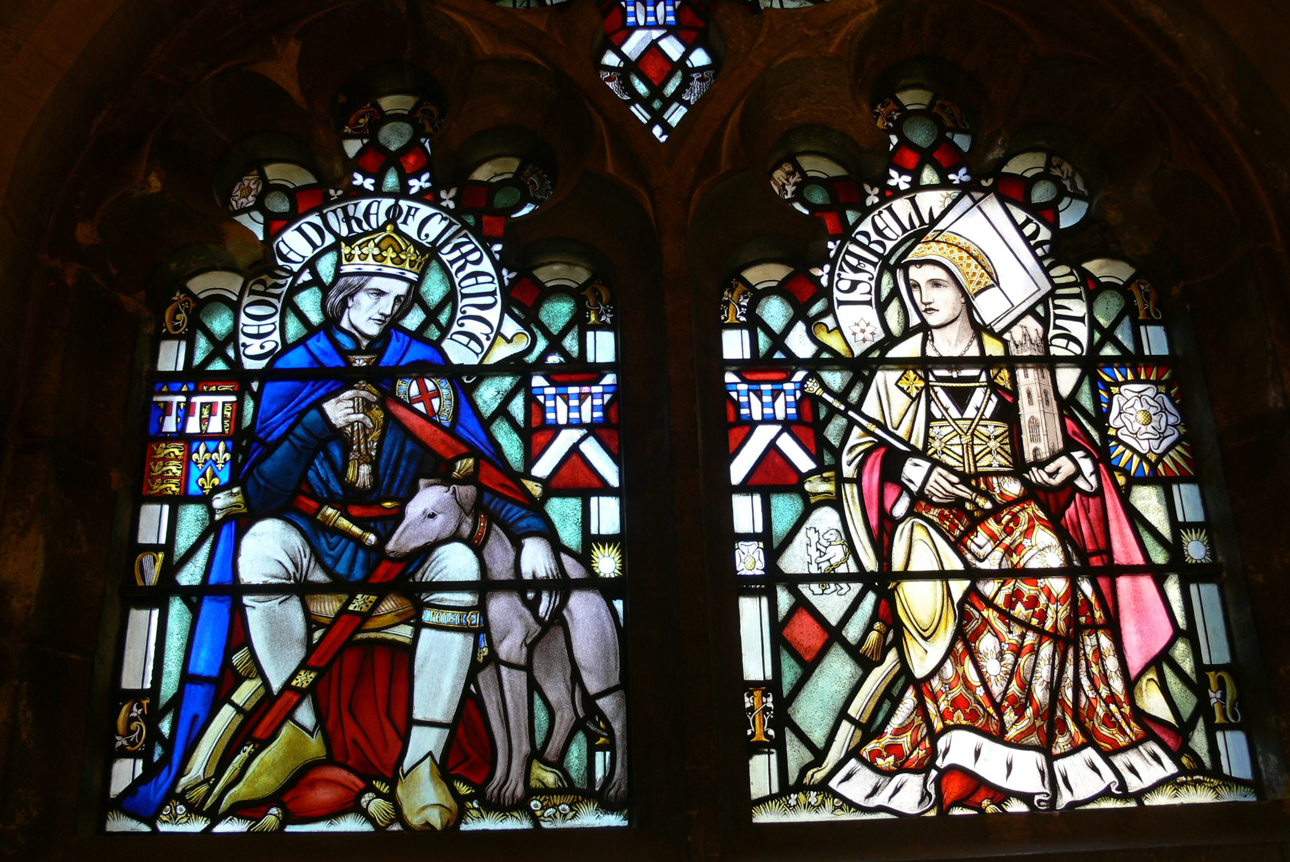 Cardiff Castle ( Wales ). Entrance hall to castle apartments: Gothic revival stained glass windows showing George, duke of Clarence and Isabell Neville.